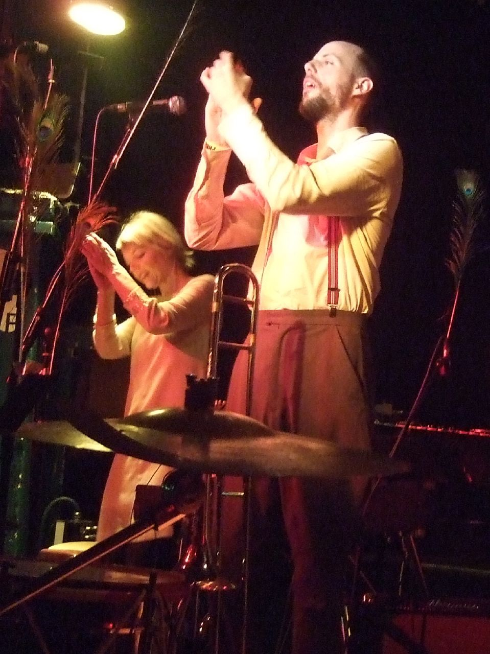 The danish band Efterklang